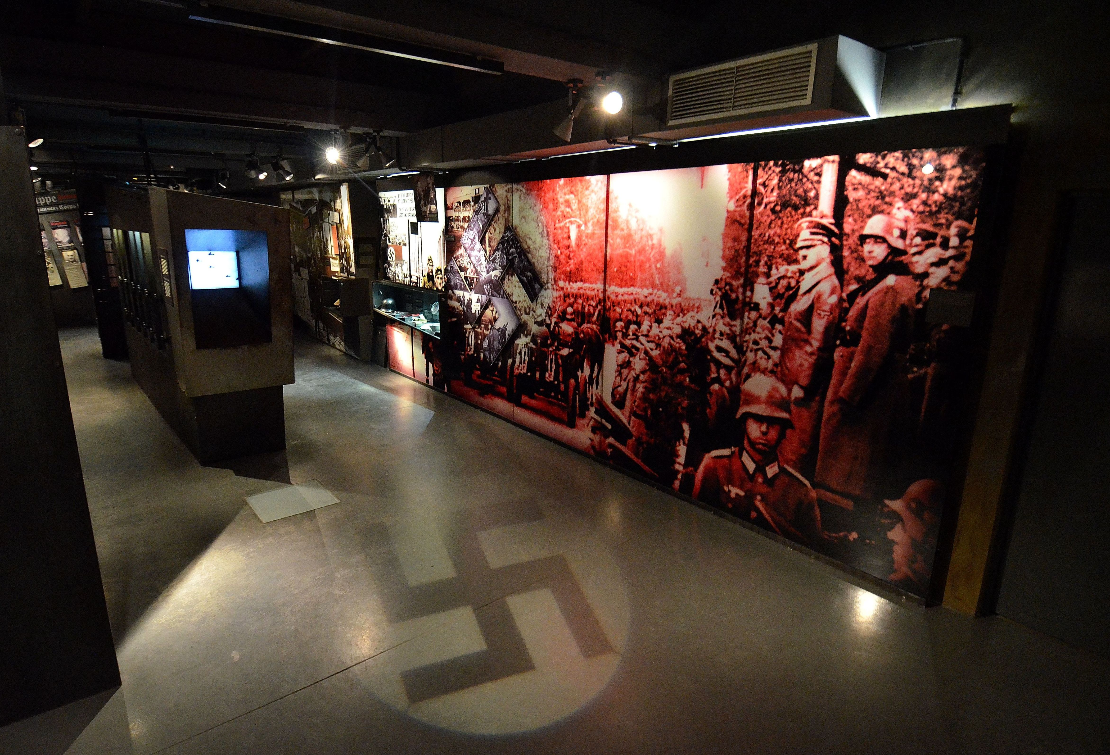 Exhibition "Germans in occupied Warsaw" at the Warsaw Uprising Museum